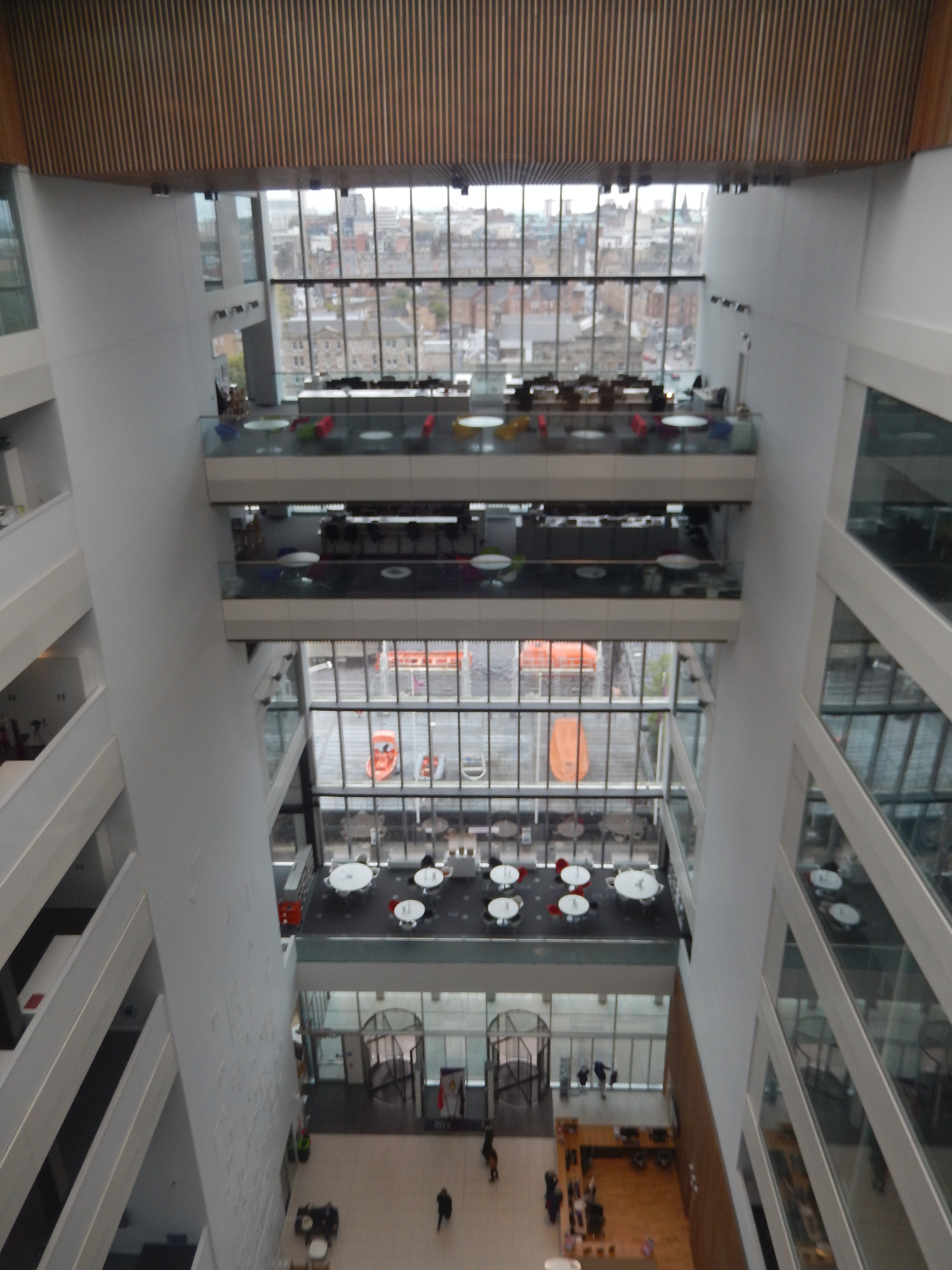 Inside the Riverside Campus of City of Glasgow College